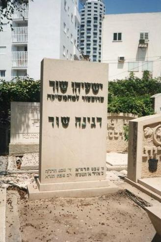 Issai Schur tomb, Trumpeldor cemetery, Tel Aviv